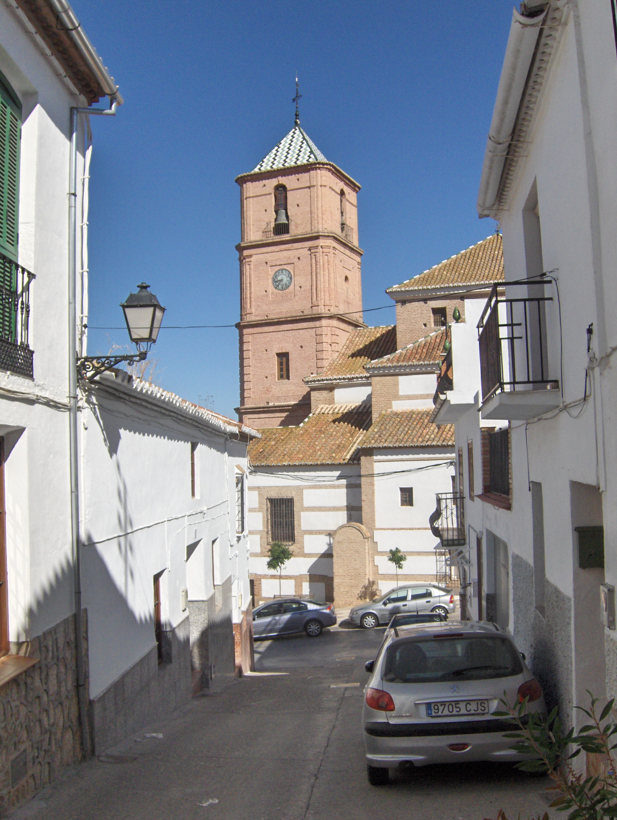 Casabermeja